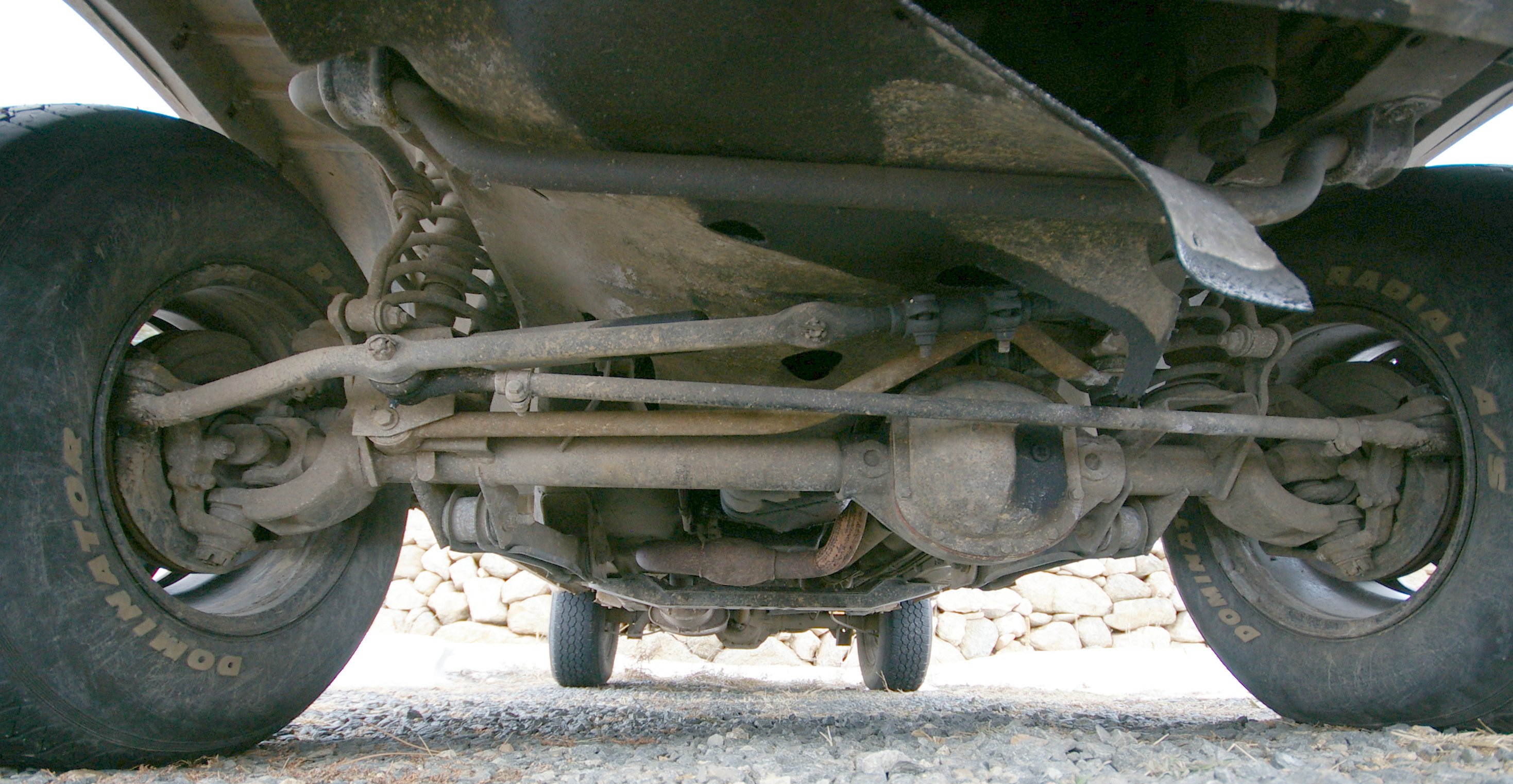 Front suspension in a Jeep Cherokee